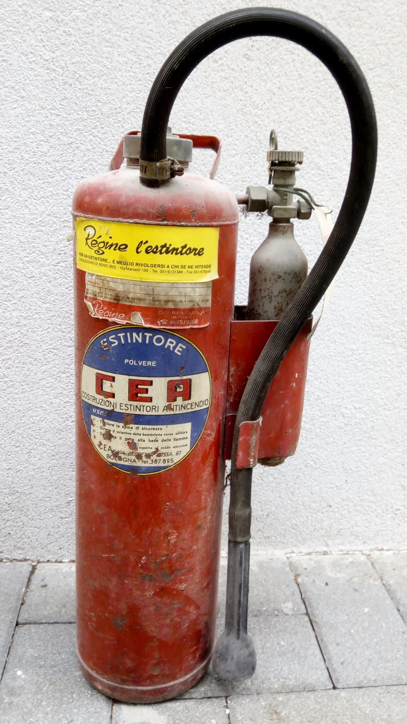 Old fire extinguisher with handle and separate propellant bottle